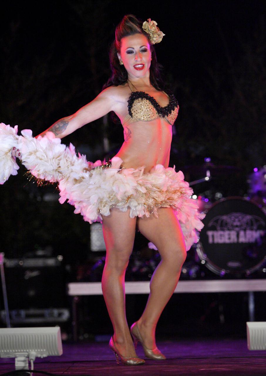 Angie Pontani at Miss Exotic World 2008